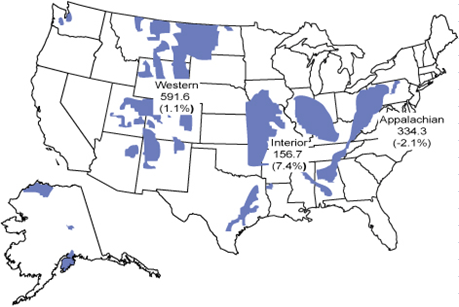 Coal production by coal-producing region, 2010 (million short tons and percent change from 2009). U.S. total: 1,085.3 million short tons (-1.0%) or 997 millions tons. (1 short ton = 907kg)